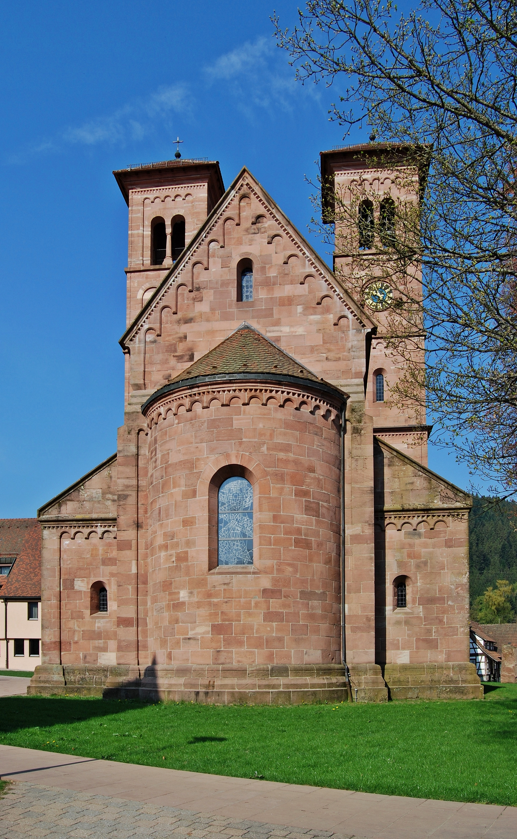 Monastery church in Klosterreichenbach, Black Forest.